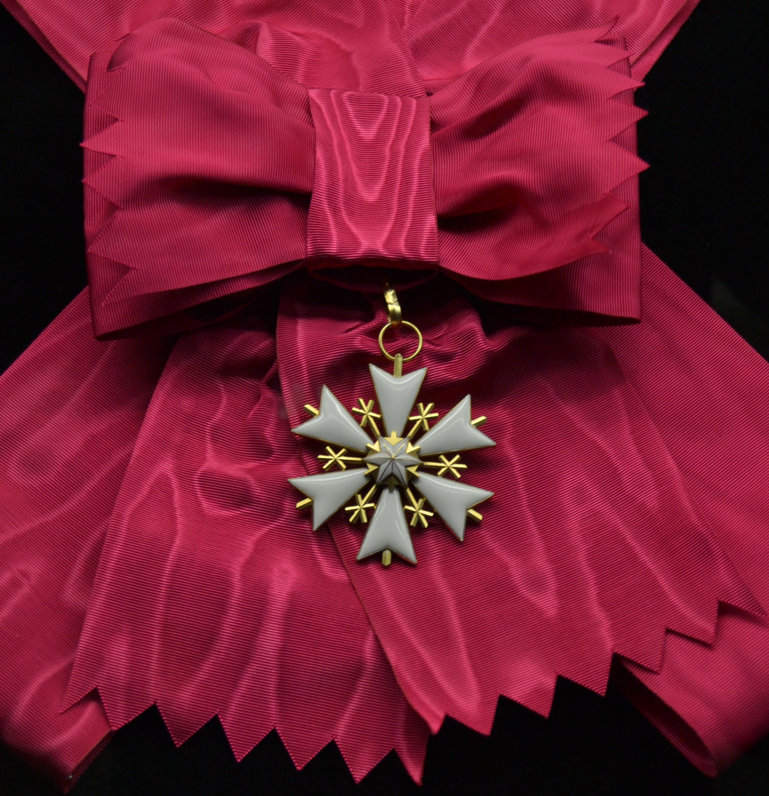 Estonia. Order of the White Star 1st class, badge and sash. The exhibition of the Estonian State Decorations at the National Library of Estonia in Tallinn.